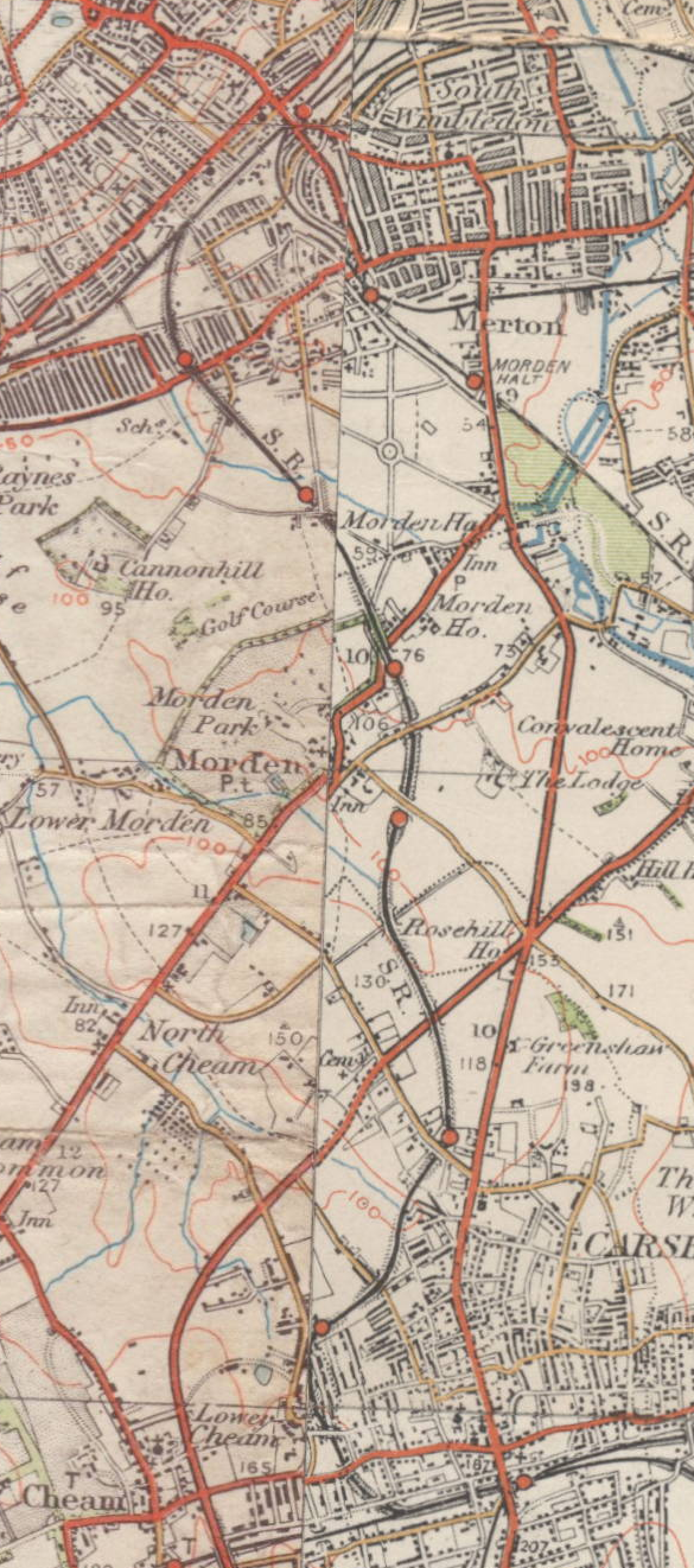 This map shows the route of the Wimbledon and Sutton Railway on an extract of an old Ordnance Survey map from the 1920s. The map is out of copyright. See Licensing below for details of the source of this image.--DavidCane 02:48, 18 July 2007 (UTC)